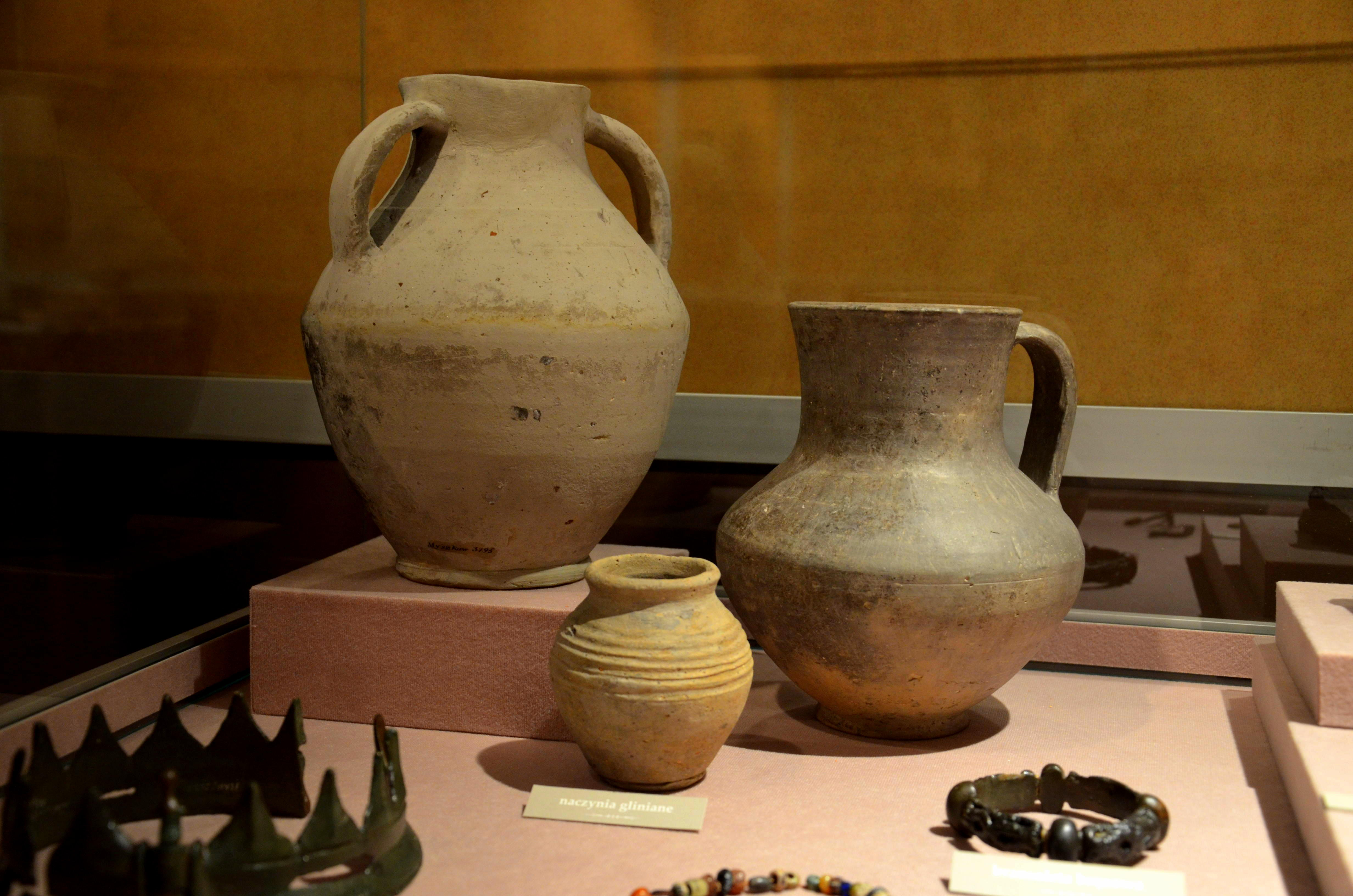 Ostrogoth ceramics from the area between Don and Dnieper. 3 to 5 centuries AD